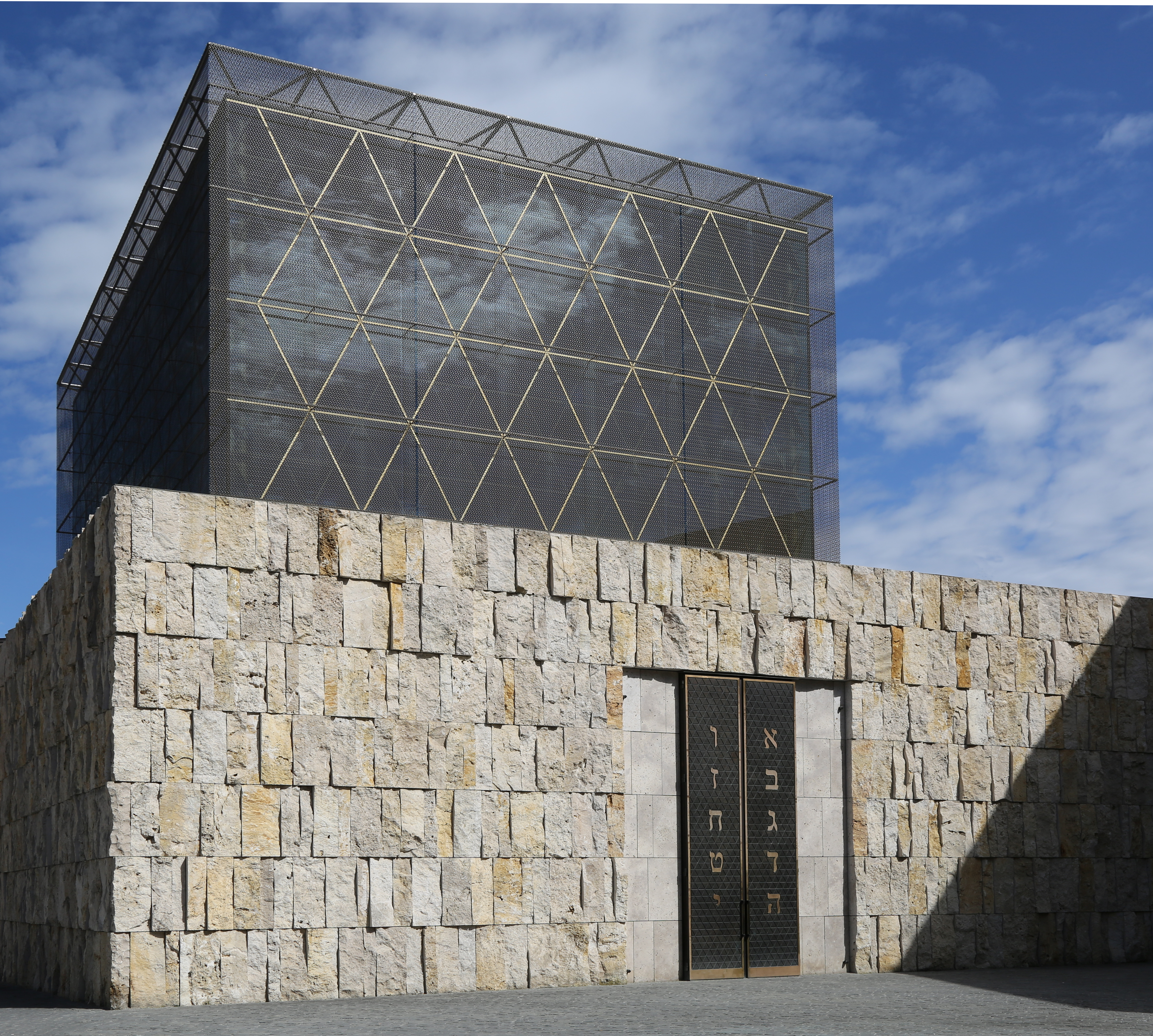 Synagogue Ohel Jakob in Munich, Germany. Designed by architects Wandel Lorch Architekten, opened in 2006